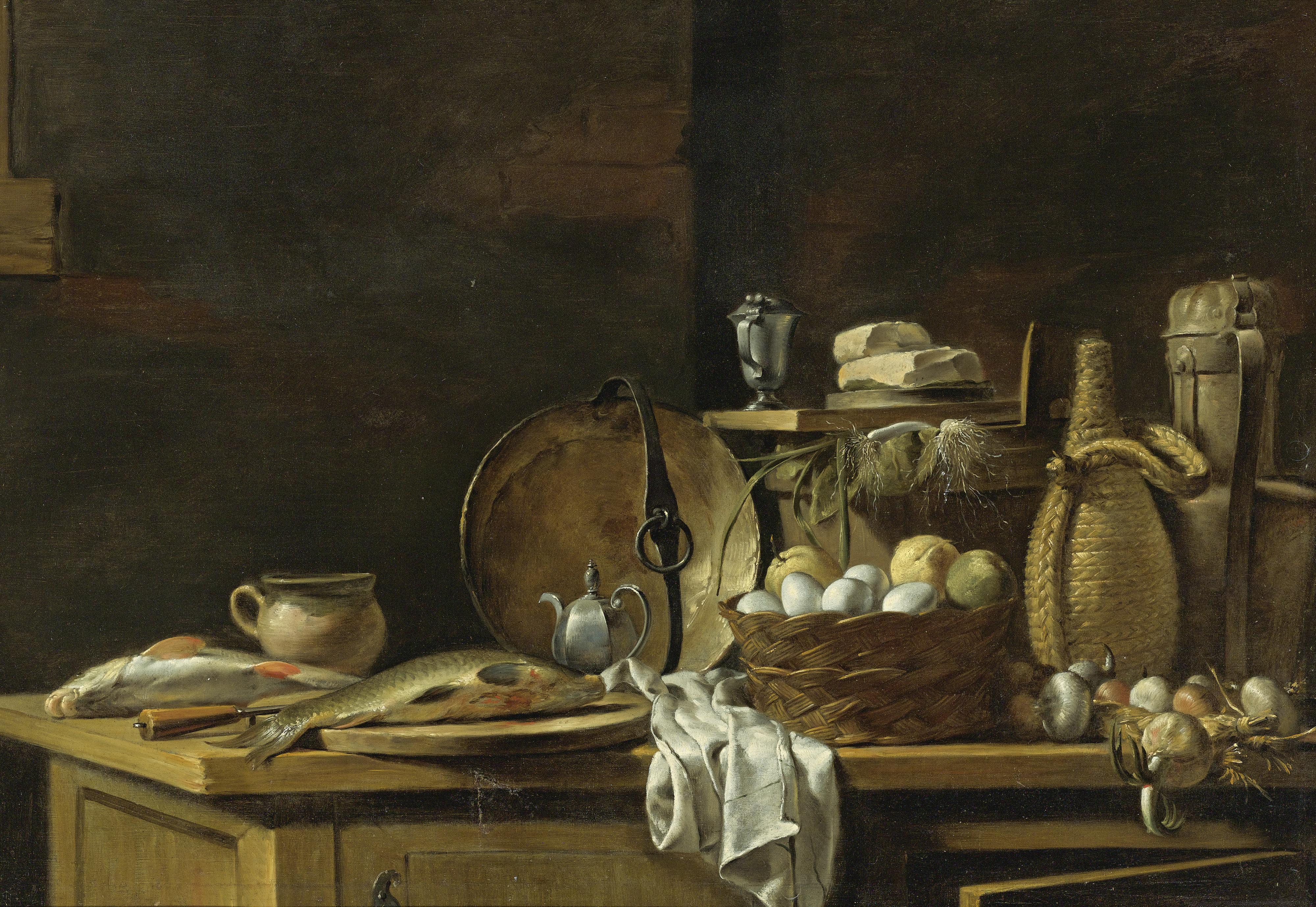 Kitchen Table Still Life, by Nicolas Henri Jeaurat de Bertry. Oil on canvas, 36 1/4 x 53 1/8 in.; 92 x 135 cm.